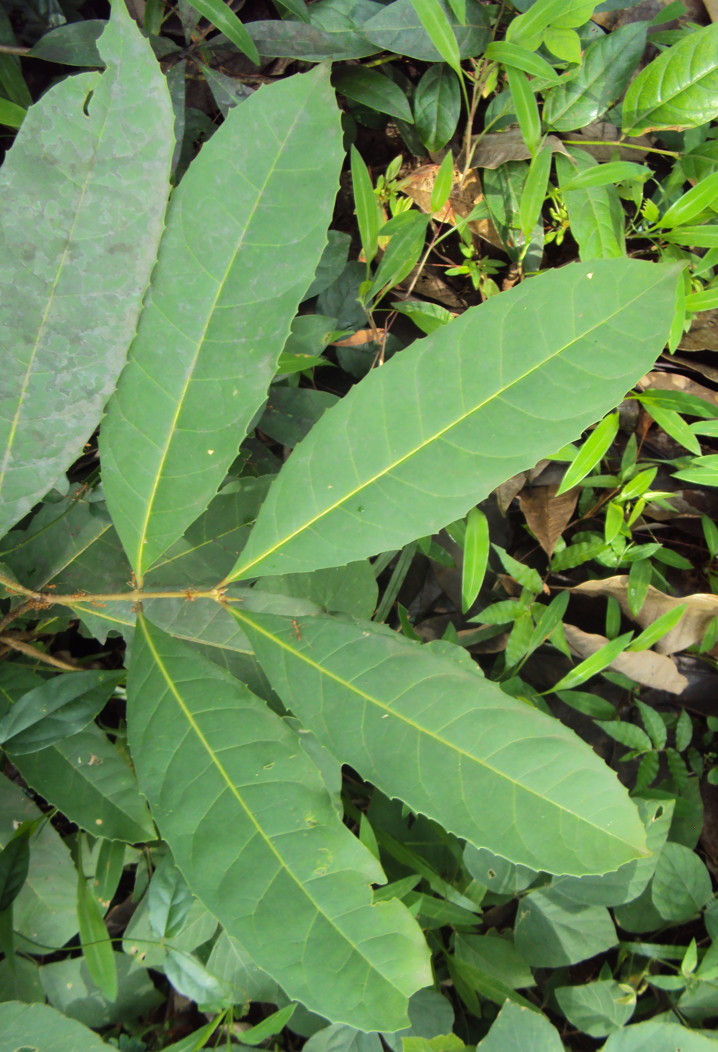 Foliage of the Indian olive